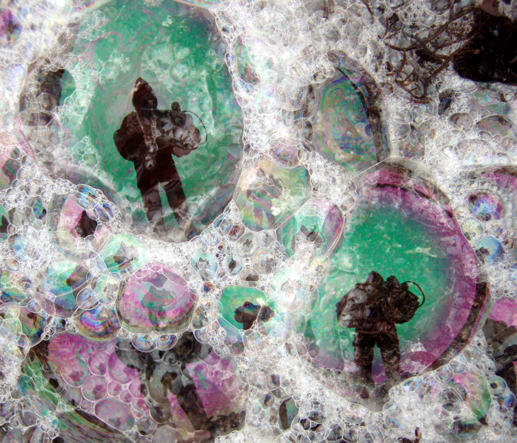 When plankton crushes ashore, it dies and disintegrates creating foam-like bubbles, which are left at tide pools floor after the ocean retreats. The bubbles display all the same properties as soap bubbles do, displaying typical interference colors, except they last much longer than soap bubbles do. The organic material of the plankton, that lowers the surface tension of the water (as soap does) and preserves the film is responsible for these colors. It might be also interesting to note how the appearance of my reflection is changing from bubble to bubble. The image was taken at Fitzgerald Marine Reserve. If you'd like to read more about this phenomena, please go here